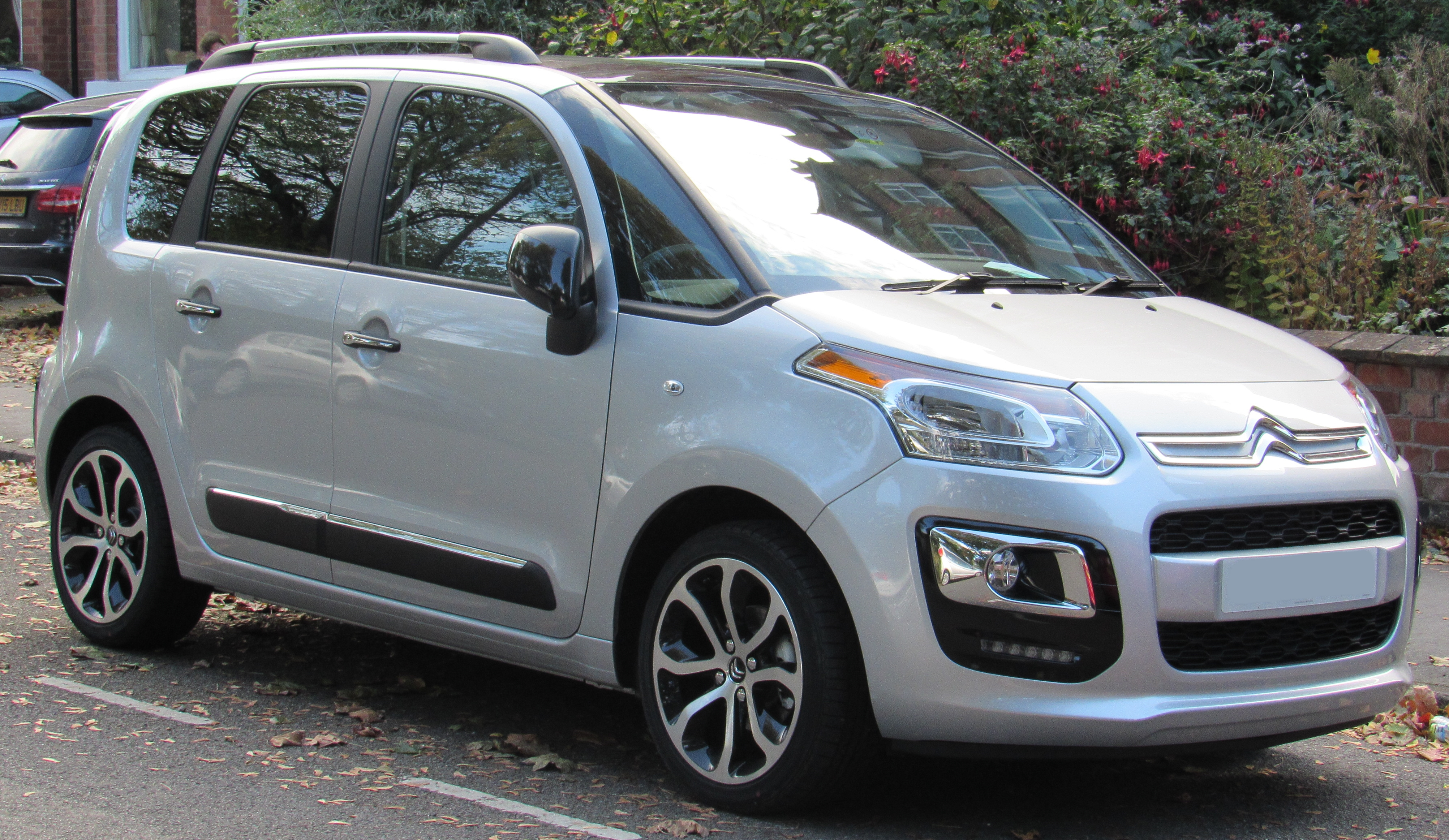 2017 Citroen C3 Picasso Platinum 1.6 Front Taken in Leamington Spa